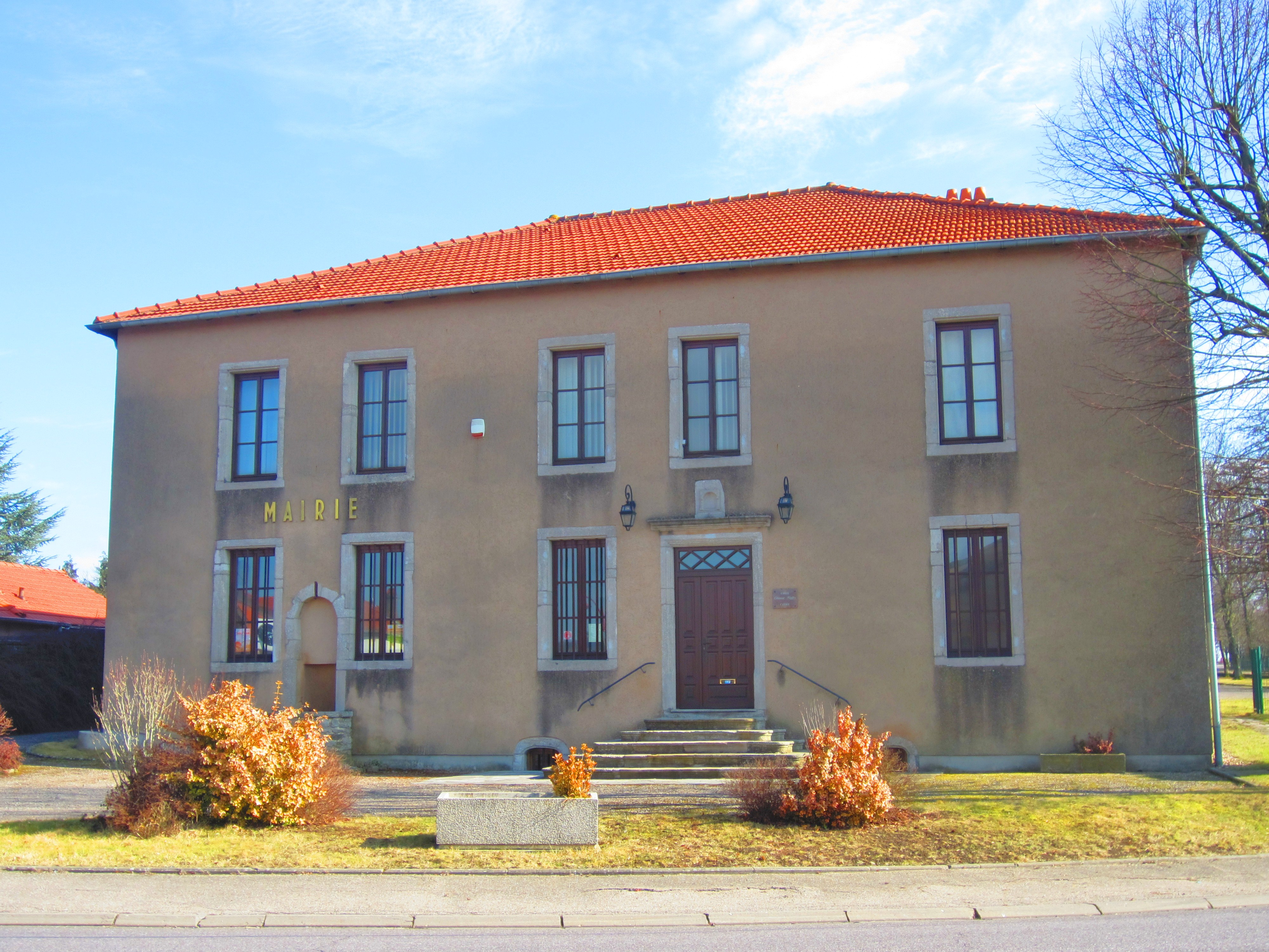 Varize town council